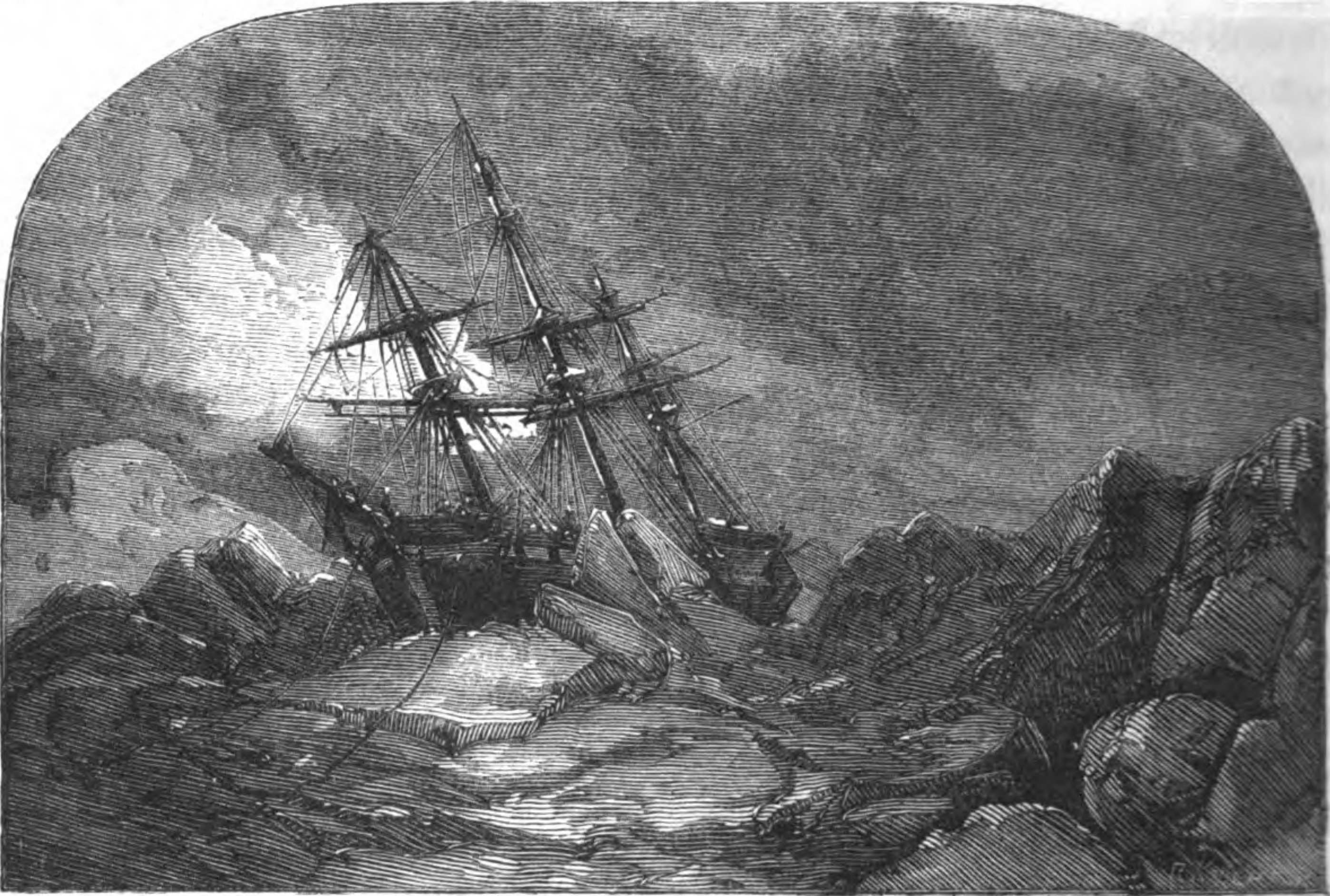 An engraving of the Diana stuck in ice during its disastrous 1866-1867 expedition to the Davis Strait in search of whales.